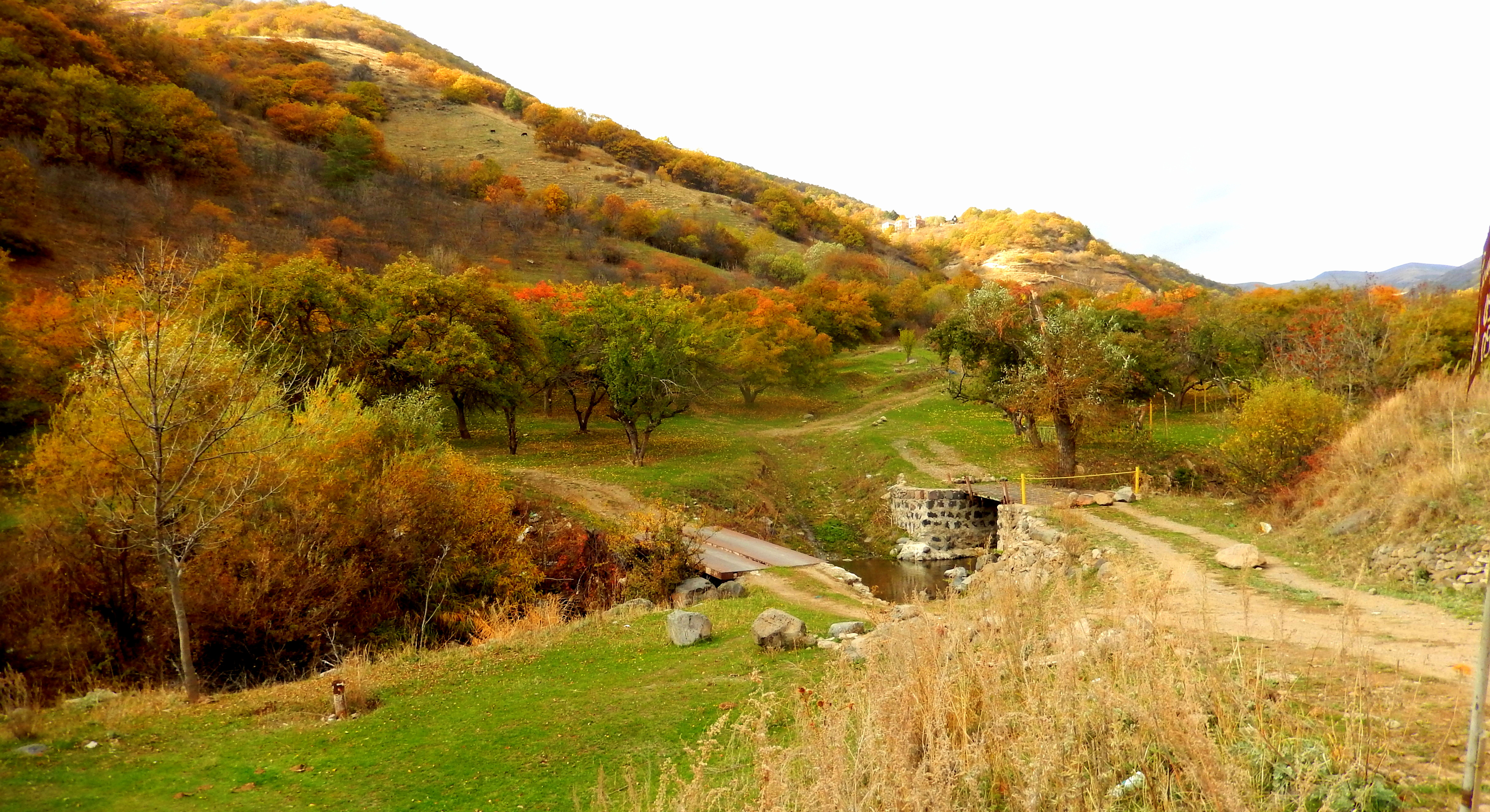 Armenian Autumn in the village of Arzakan, a place where you can enjoy the warm colors of nature